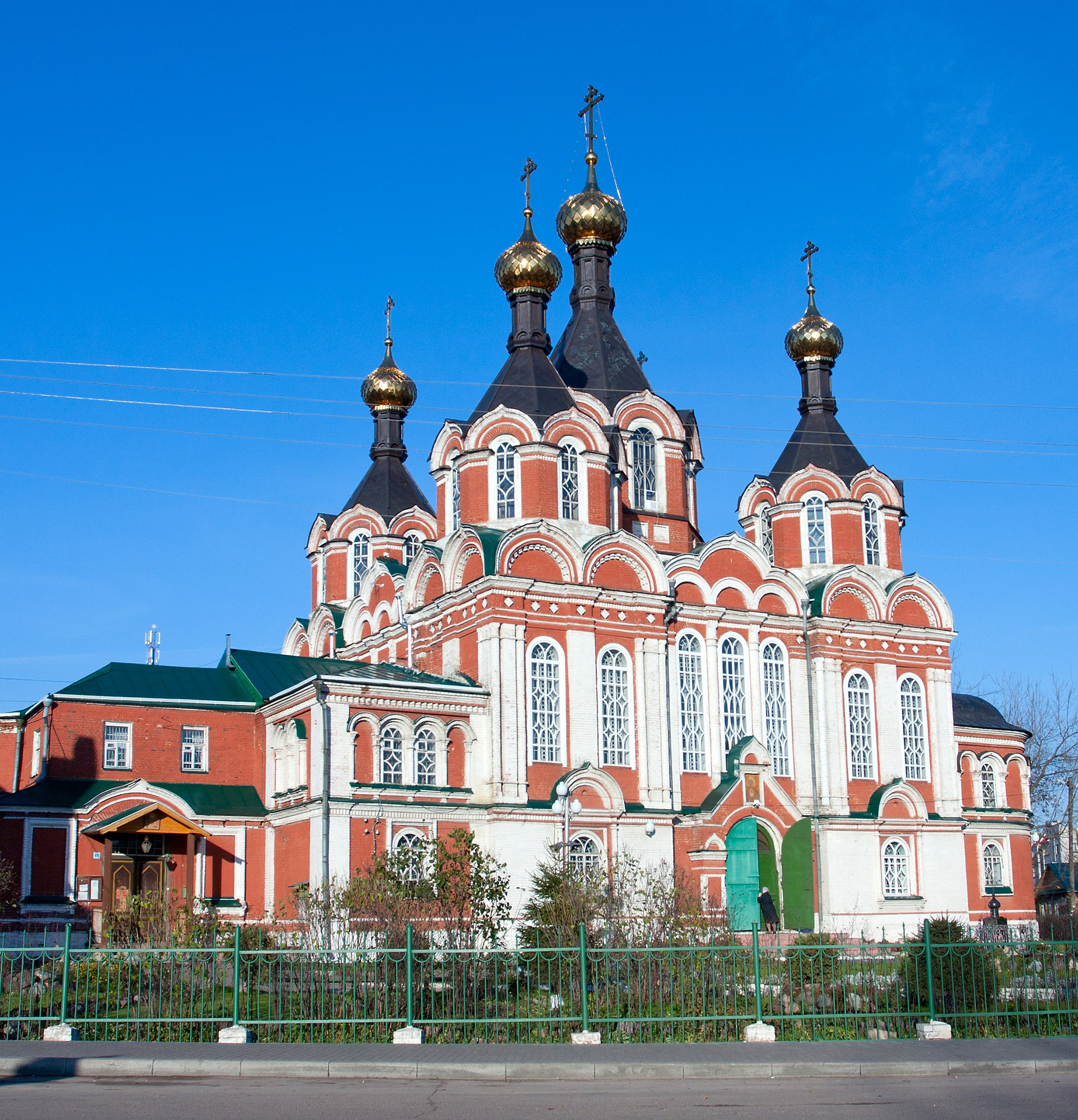 Cathedral of The Transfiguration of Our Lord / Kimry, Russia